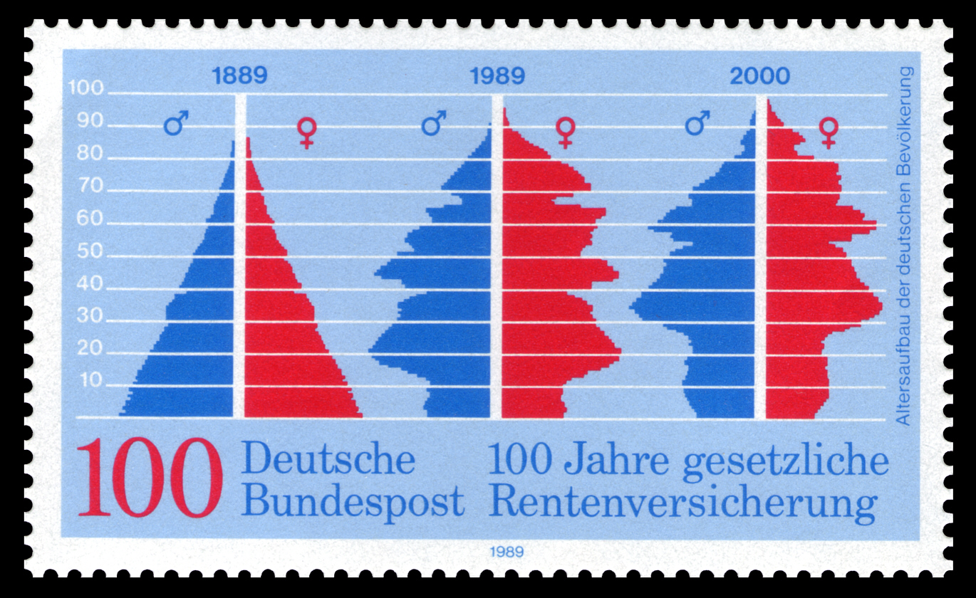 100 years of German Rentenversicherung (old-age pension insurance)